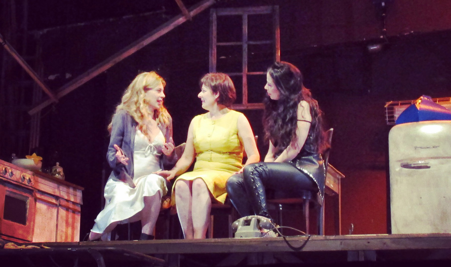 Benedicta Boccoli, Paola Bonesi and Fulvia Lorenzetti acting Crimini del cuore (Beth Henley), at Teatro san babila of Milan, on May, 1st, 2015